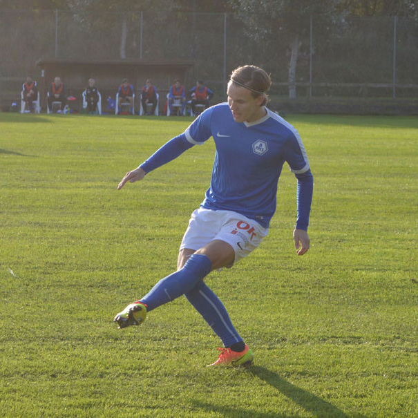 Image of the Danish footballer Emil Peter Jørgensen.